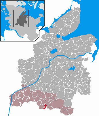 Locator maps of municipalities in Schleswig-Holstein - District Rendsburg-Eckernförde